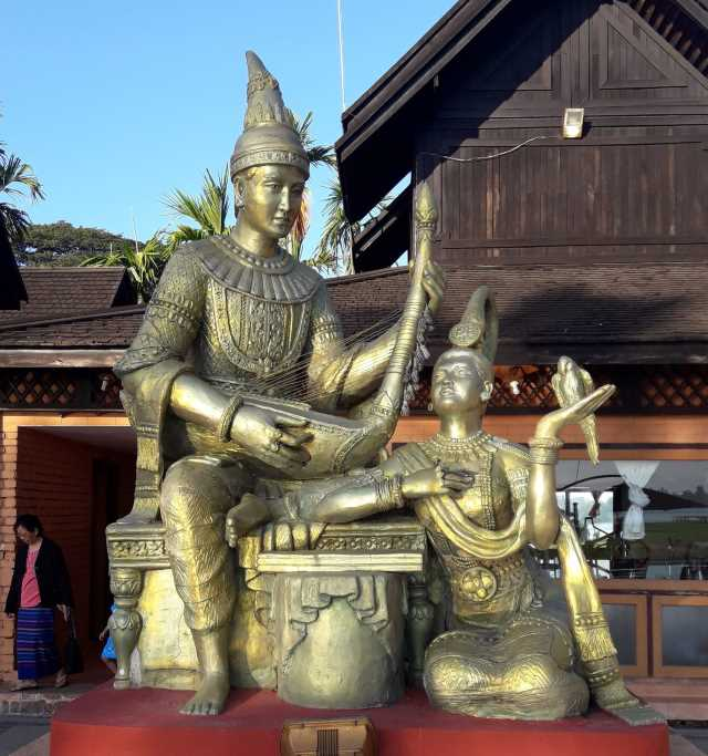 Natshinnaung (Burmese: နတ်သျှင်နောင်, [naʔ ʃɪ̀ɰ̃ nàʊɰ̃]; 1579–1613) was a Toungoo prince who was a noted poet and an accomplished musician, as well as an able military commander. Yaza Datu Kalaya (Burmese: ရာဇ ဓာတု ကလျာ, pronounced [jàza̰ dàdṵ kələjà]; also spelled Yaza Datu Kalya; 12 November 1559 – November 1603) was crown princess of Burma from 1586 to 1593, and crown princess of Toungoo for seven months in 1603.